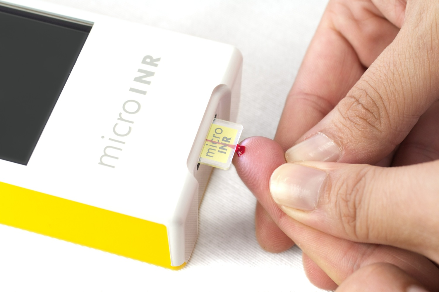 Patient testing with microINR